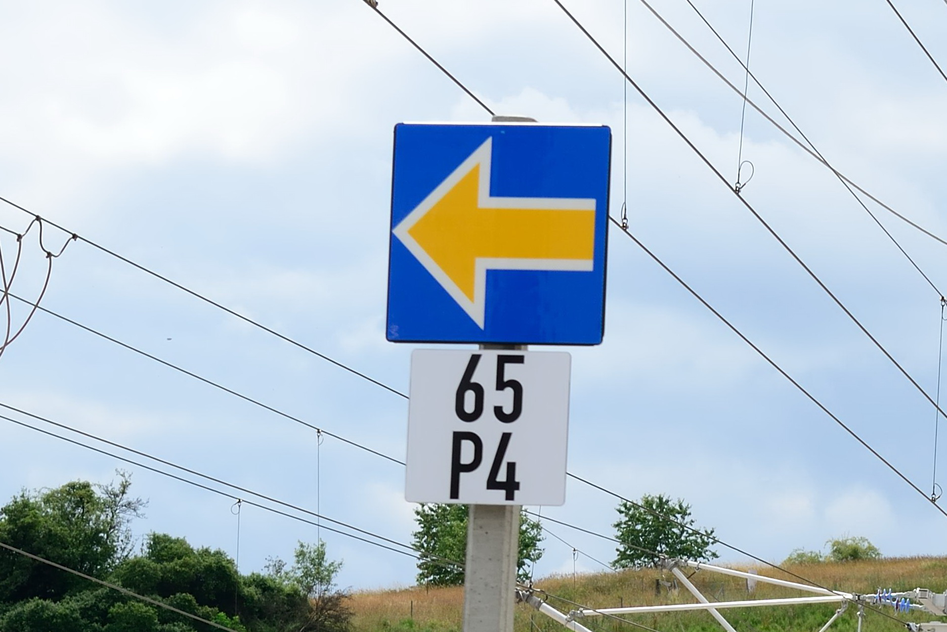 ETCS Stop Marker